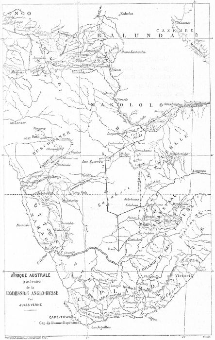 An illustration from Jules Verne's novel "The Adventures of Three Englishmen and Three Russians in South Africa" (1870) drawn by Jules Férat.